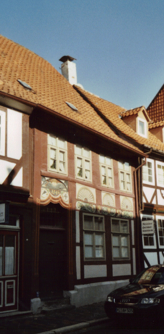 Hildesheim: Blacksmith's House (1548).